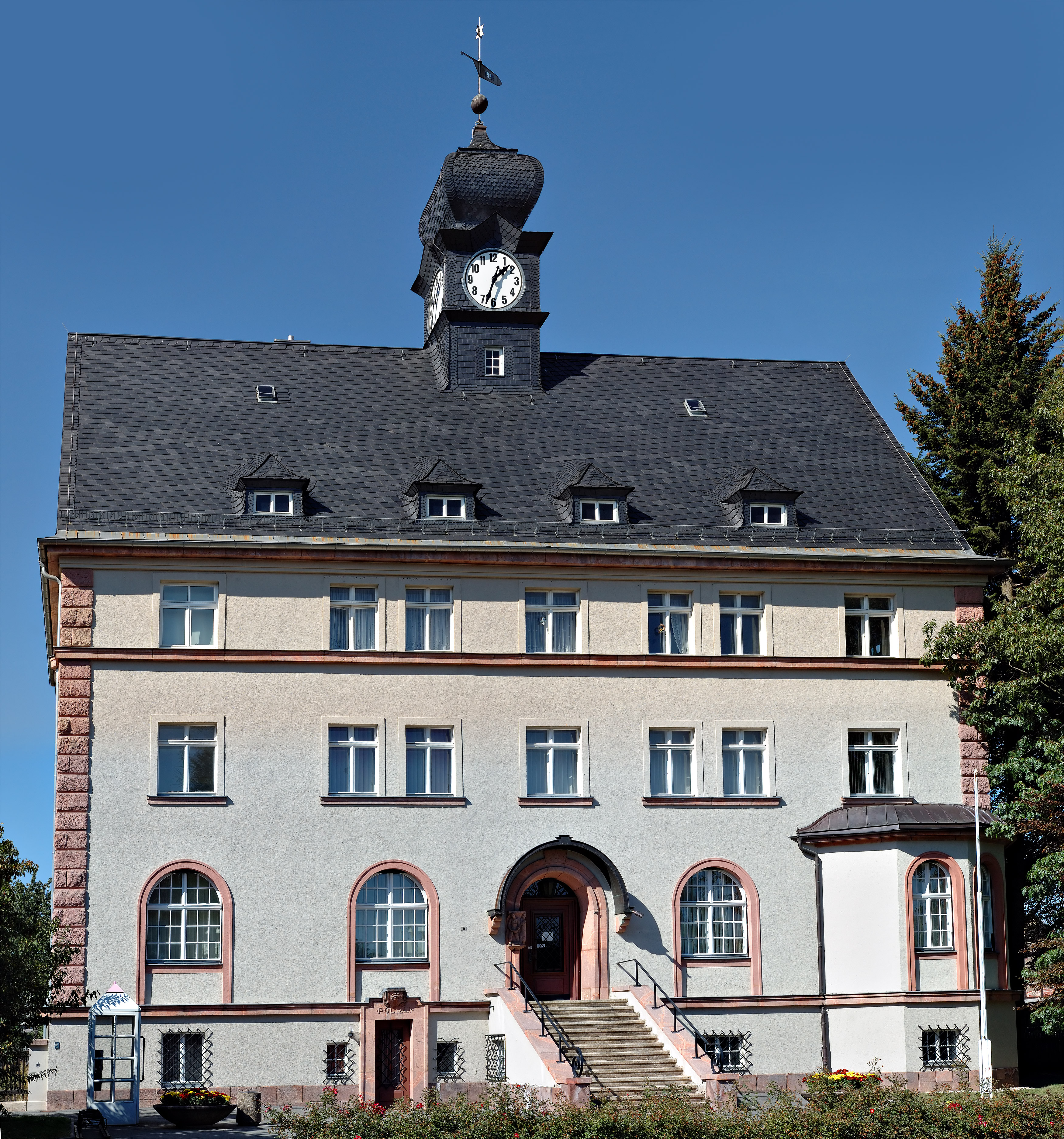 This image shows the town hall in Zwickau-Crossen (Saxony, Germany). It has been stitched together using seven single images.